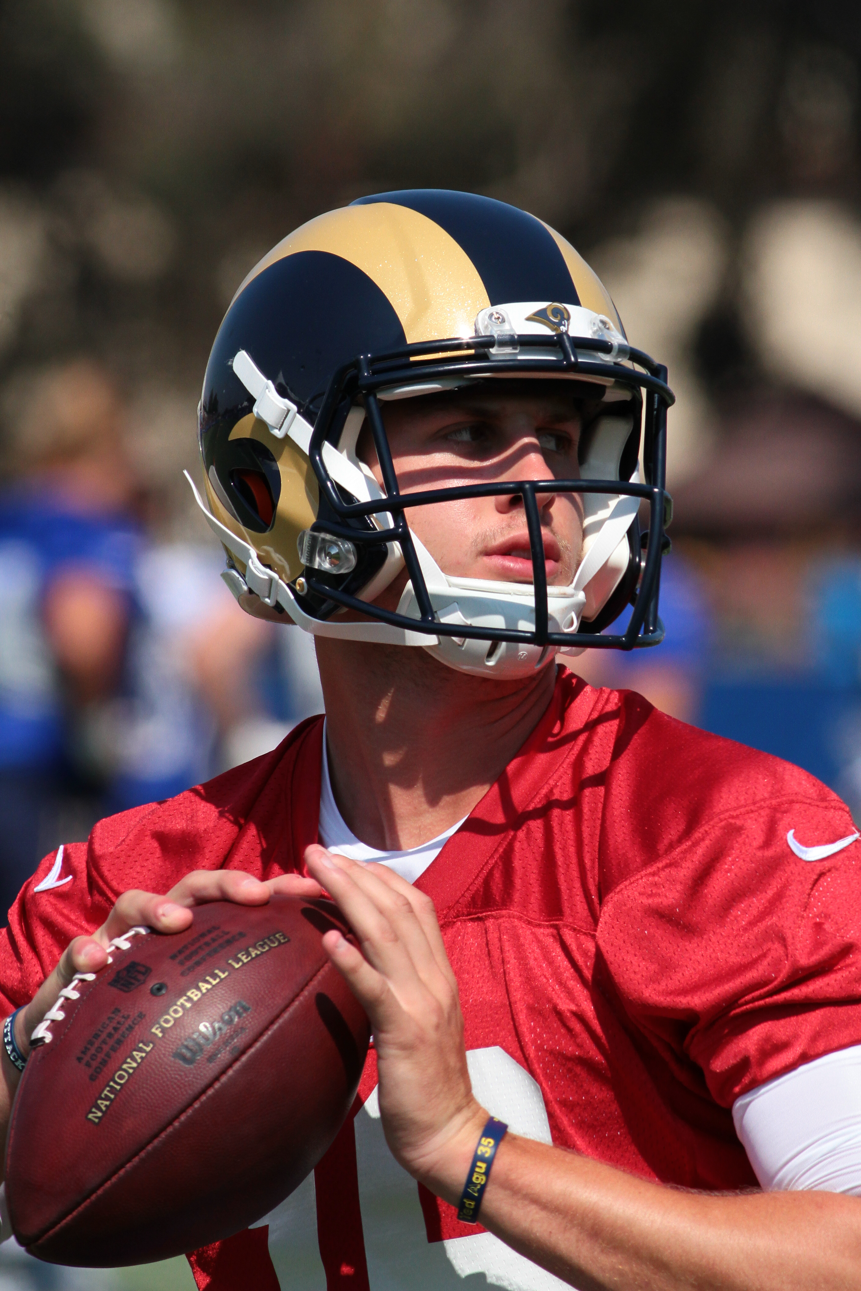 Jared Goff at the LA Rams training camp at UC Irvine, July 31 2016.